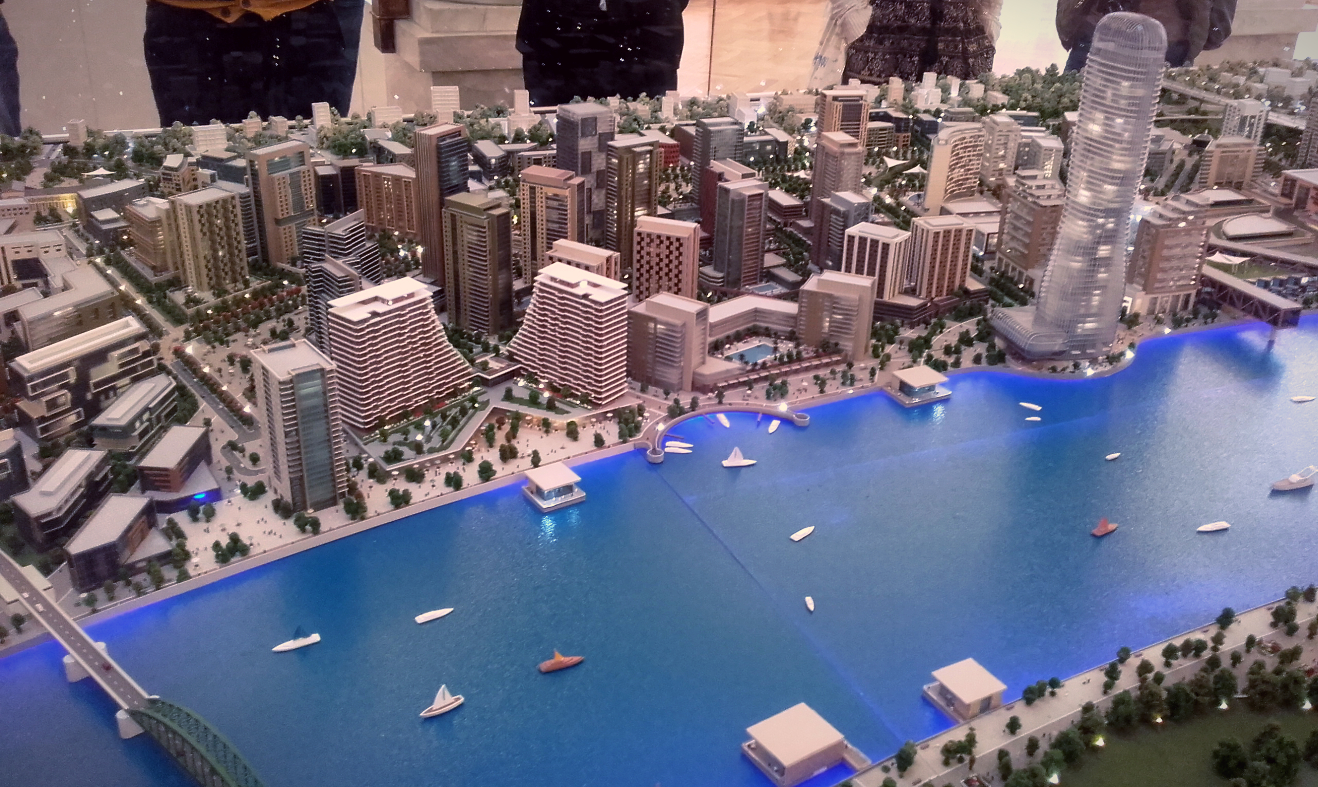 Mock up of Belgrade Waterfront, a construction project headed by the Government of Serbia aimed at improving Belgrade's cityscape and economy by revitalizing the Sava amphitheater. This mock up is created by Eagle Hills and is publicly displayed at an information point related to the project in Belgrade.